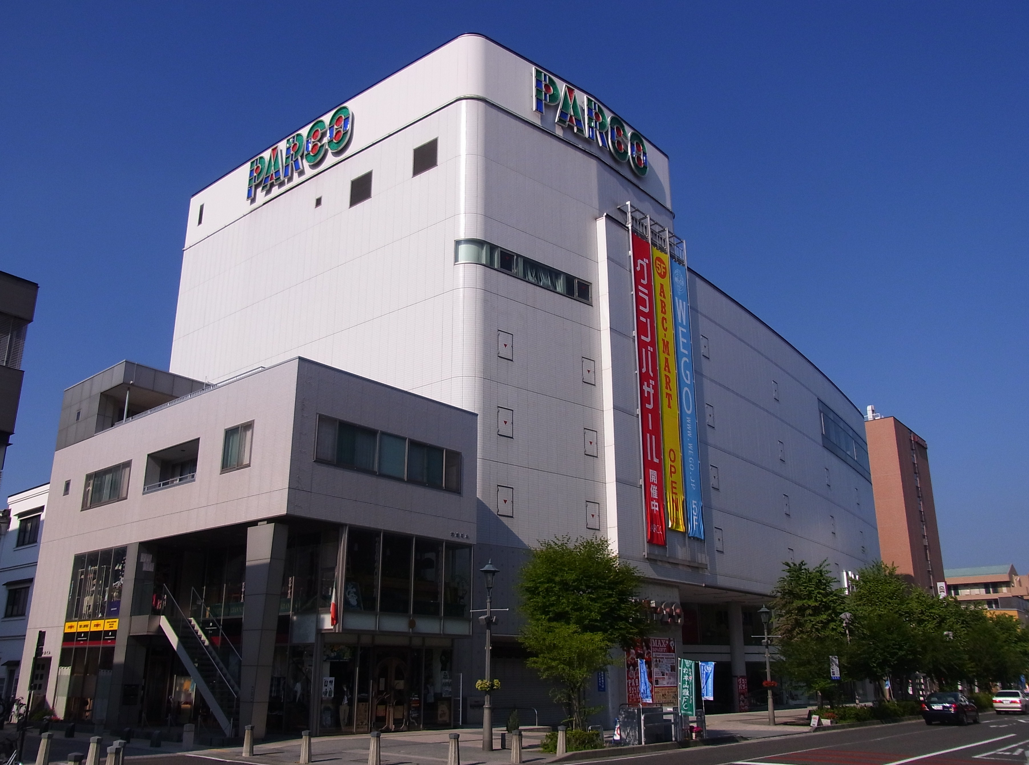 Matsumoto PARCO in Matsumoto City, Nagano Prefecture, Japan.